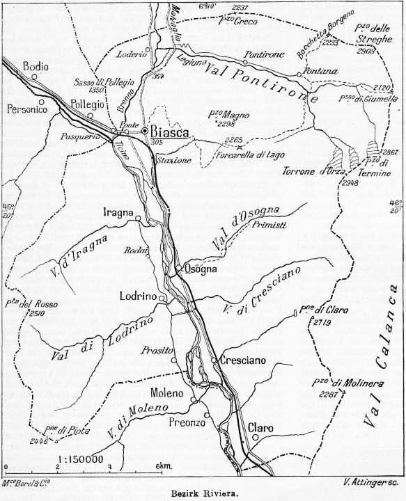 District Riviera, Ticino (1906)